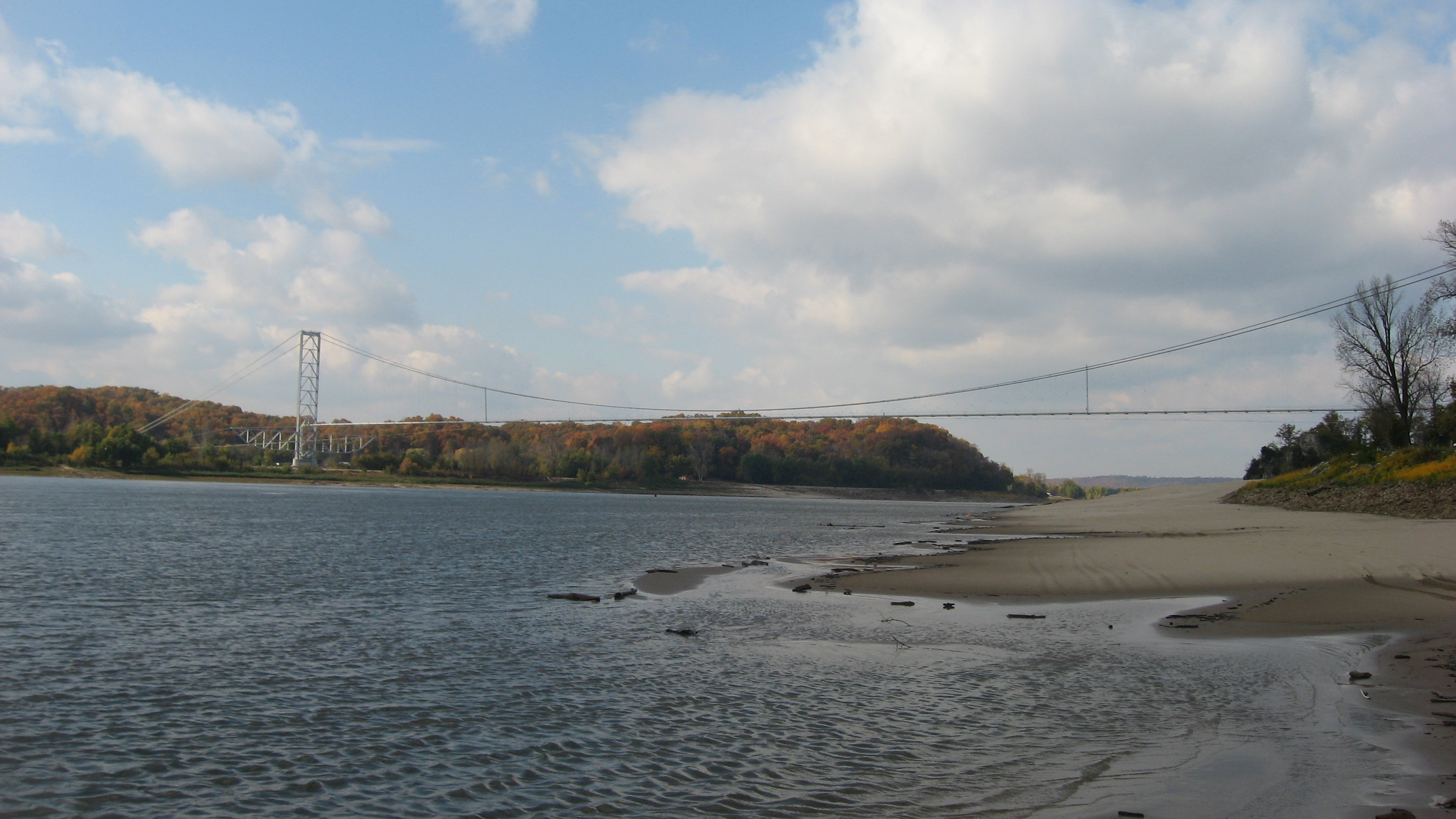 Southern (downstream) side of the Grand Tower Pipeline Bridge, which carries a natural gas pipeline over the Mississippi River between Grand Tower, Illinois and unincorporated Perry County, Missouri, in the United States. The bridge was completed in 1955.